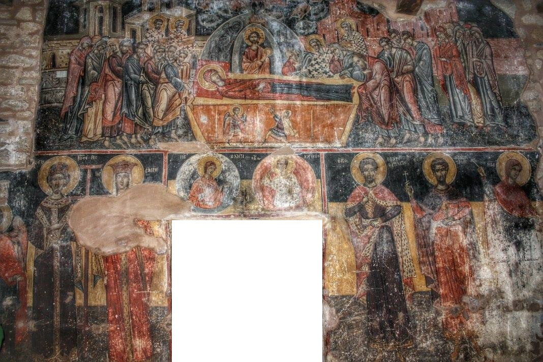 Saint Patapios Veria Frescos